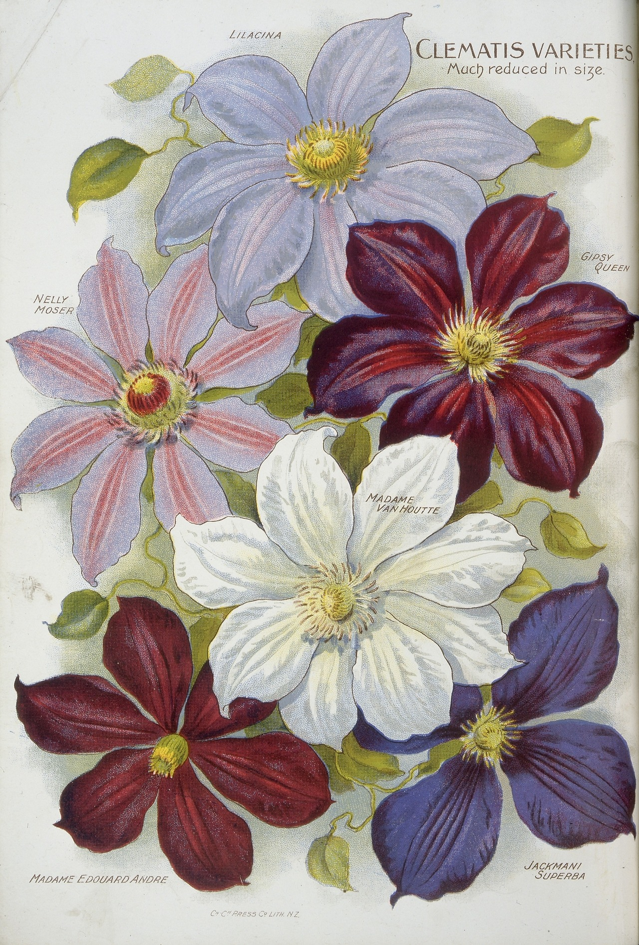 A page from Nairn and Sons’ 1906 horticultural catalogue shows several clematis blooms of different colours. Clematis hybrids for the garden had been popular from the 18th century but especially from the 1860s. You can see advertisements for various clematis plants in the Christchurch Press, 21 October 1905, page 8. The beautiful lithography is by C M Banks Ltd, a Wellington printer who worked for Lyon & Blair but set up in his own company in around 1897. Nairn and Sons, Lincoln Road, Christchurch, N.Z. :Clematis varieties. 1906.